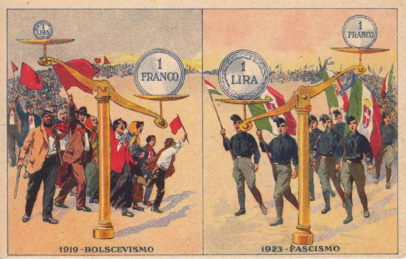 fascist card for political election 1924